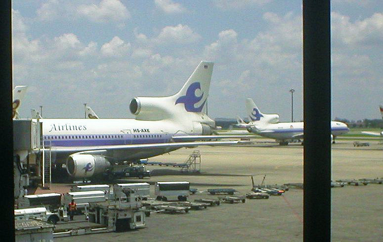 Two Lockheed TriStar of Thai Sky Airlines in Bangkok Airport